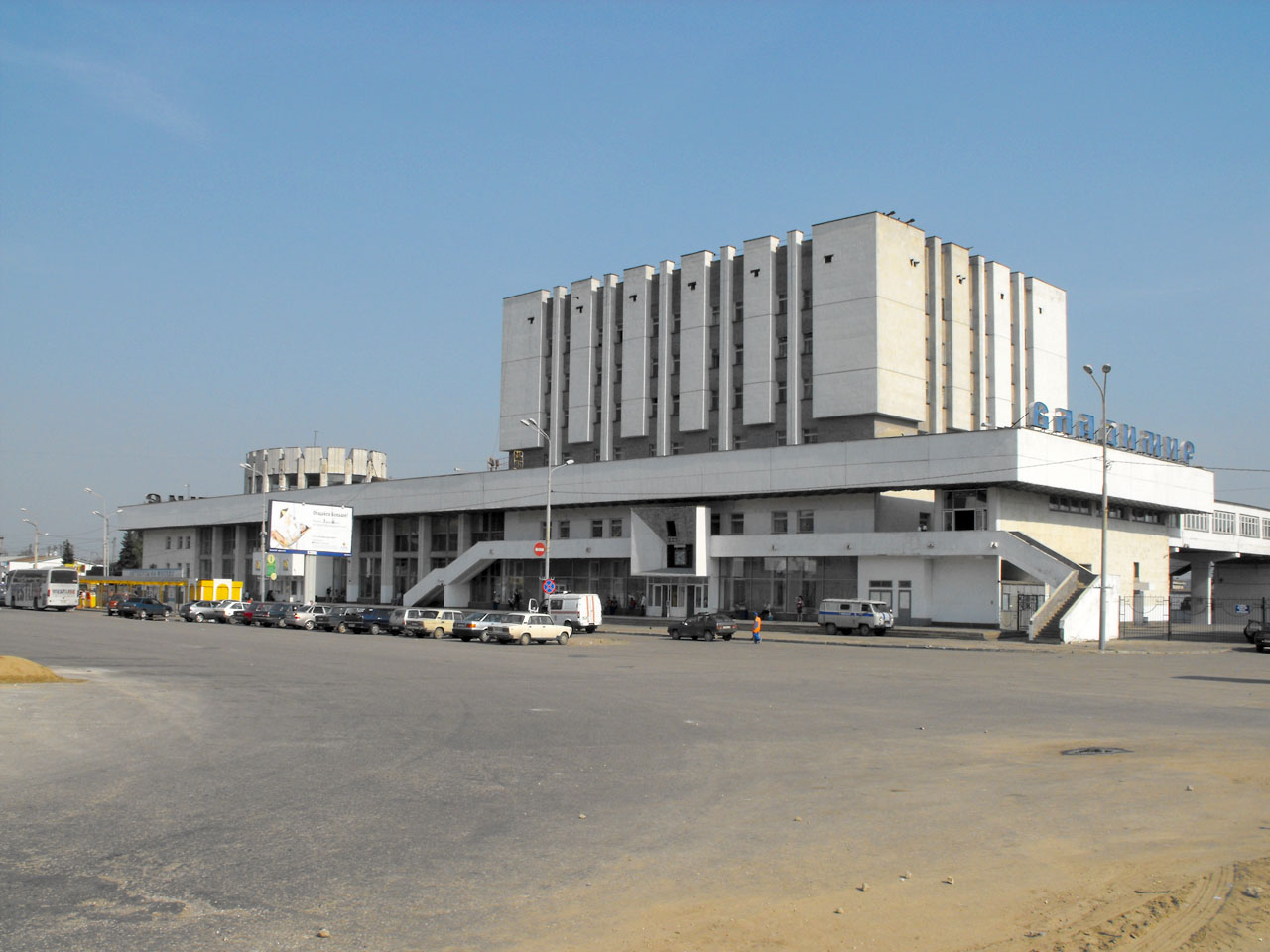 Vladimir railway station (Russia)